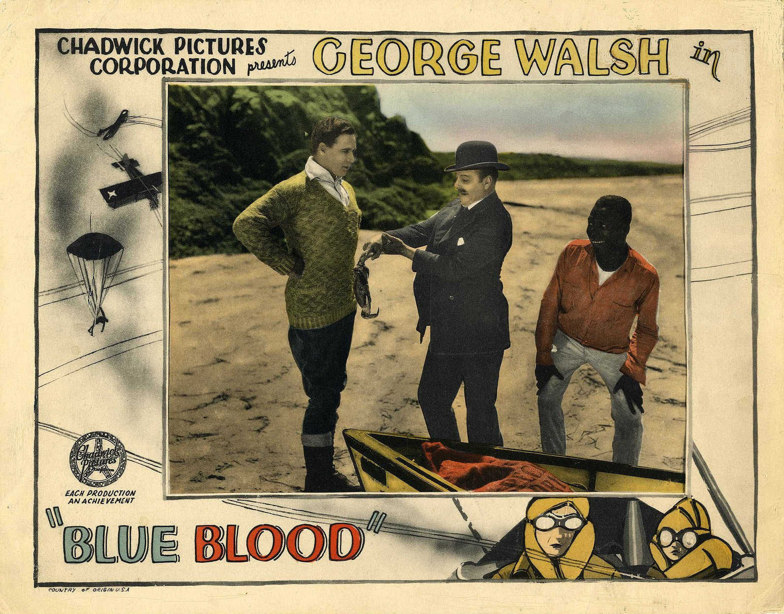 Lobby card for the 1925 American film Blue Blood with George Walsh, an unidentified actor, and Spencer Bell.